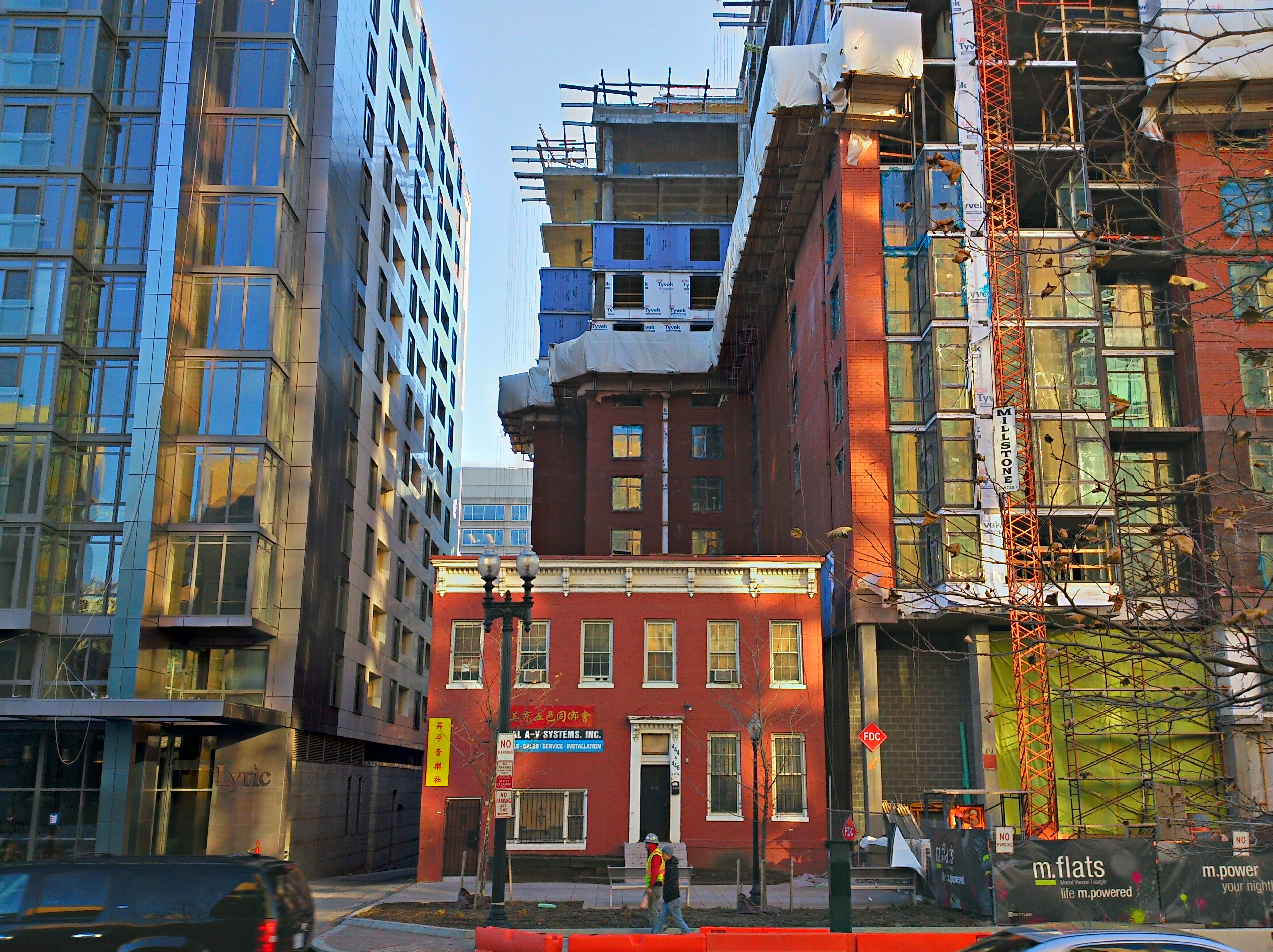 The two Italianate former residences, 444 and 446 K Street NW, were built in 1874 and are designated as contributing properties to the Mount Vernon Triangle Historic District.